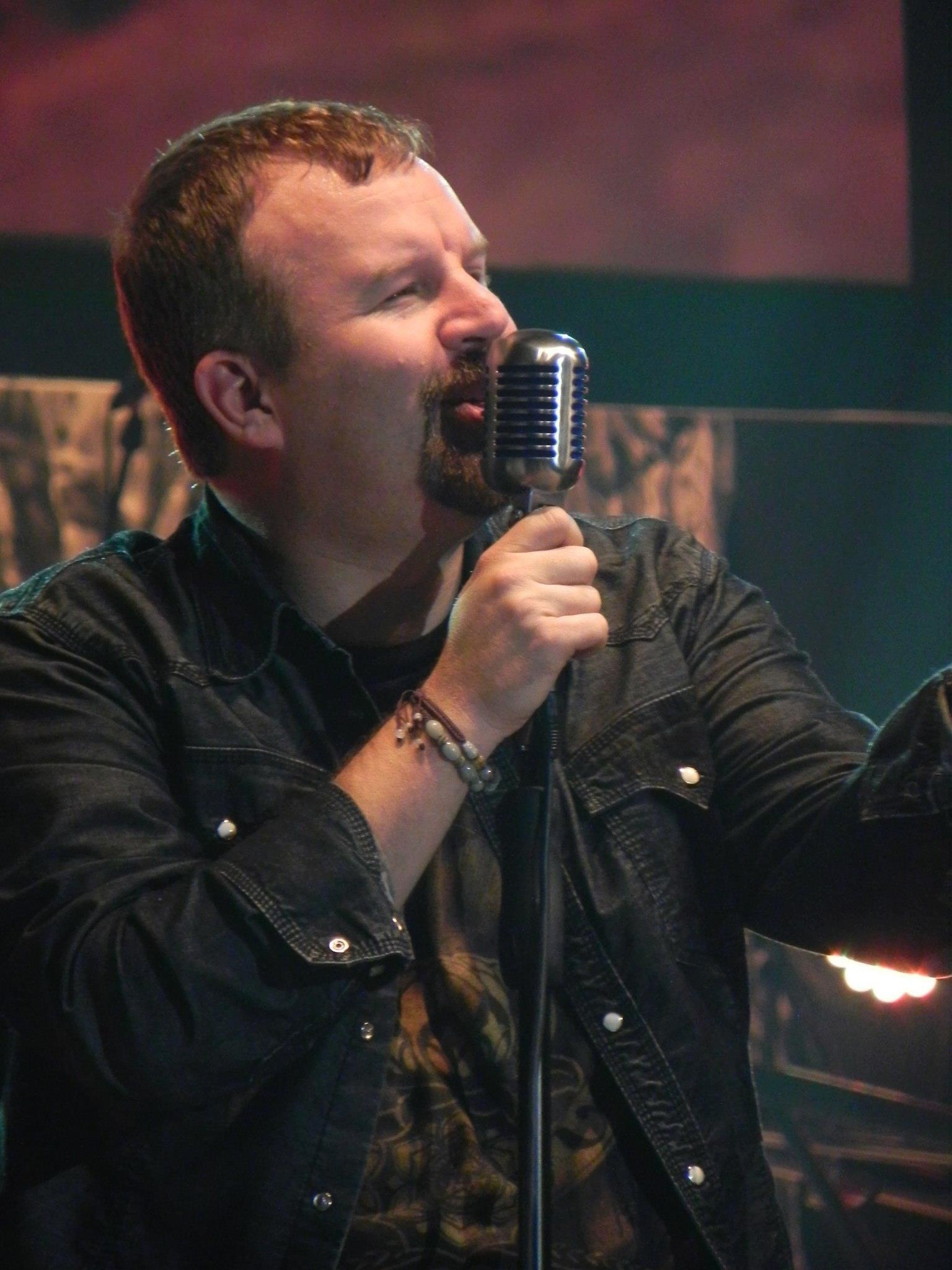 Lead singer Mark Hall of Casting Crowns on the 'Come to the Well Tour'.